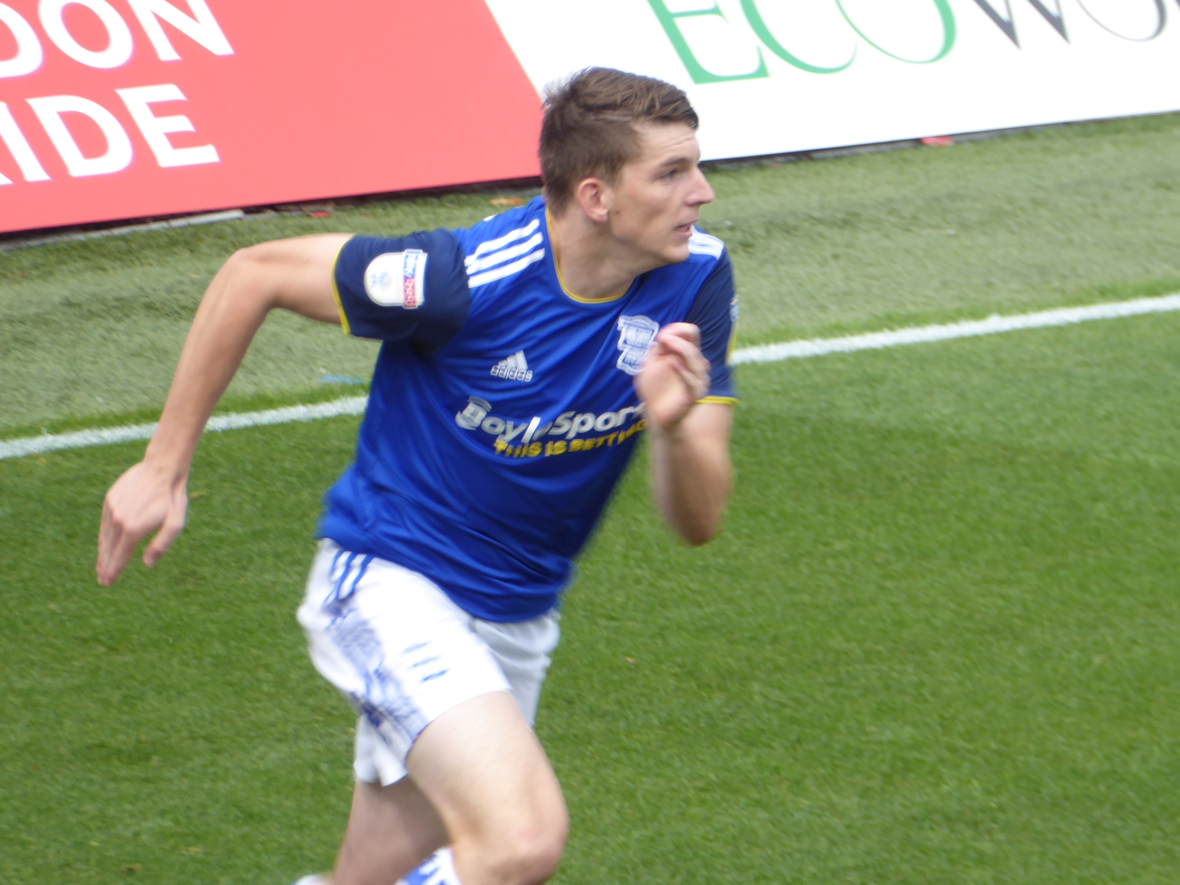 Steve Seddon during his Birmingham City debut in the EFL Championship match against Brentford at Griffin Park on 3 August 2019